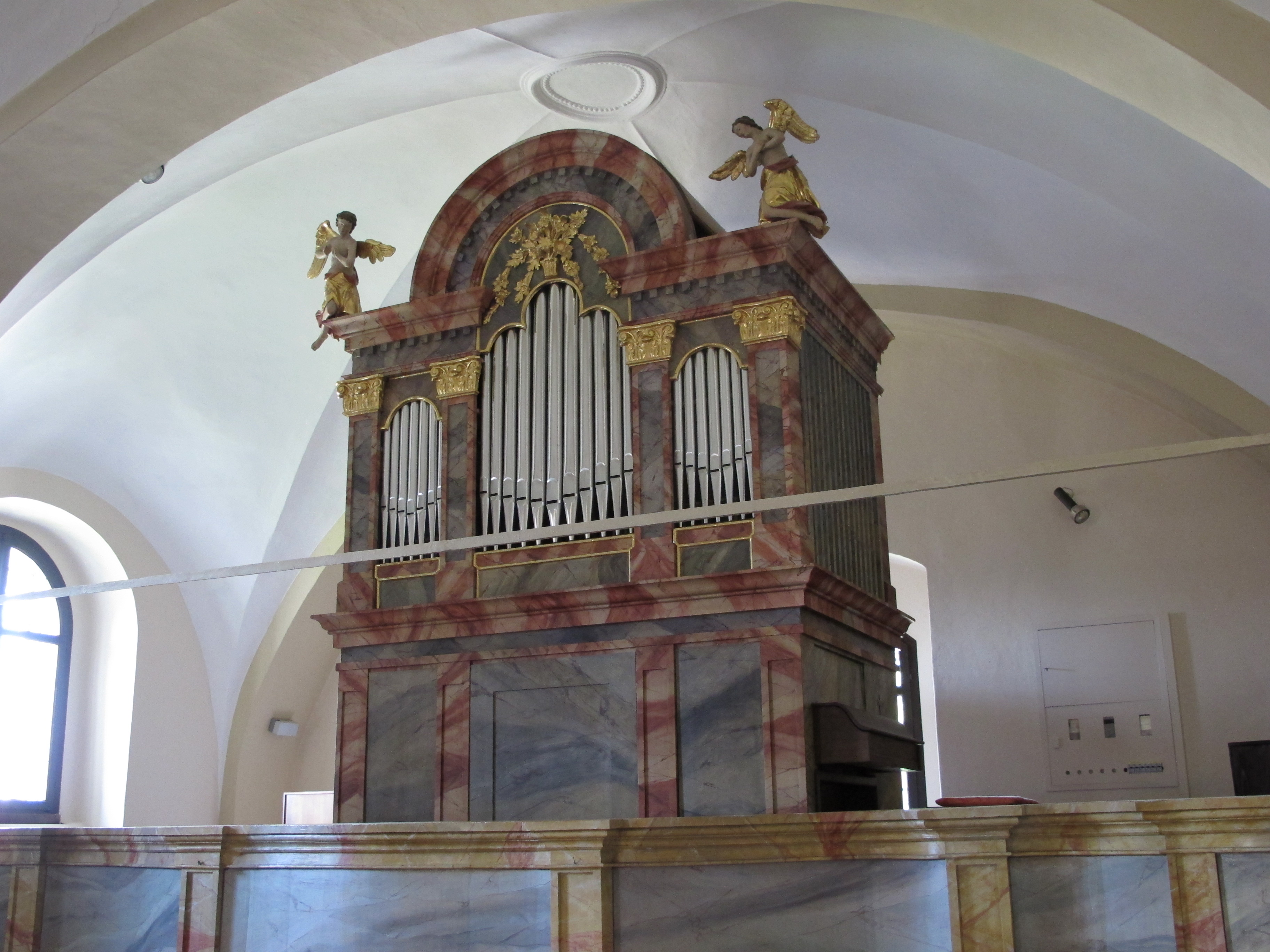 Deutschmann Pipe Organs Übersbach